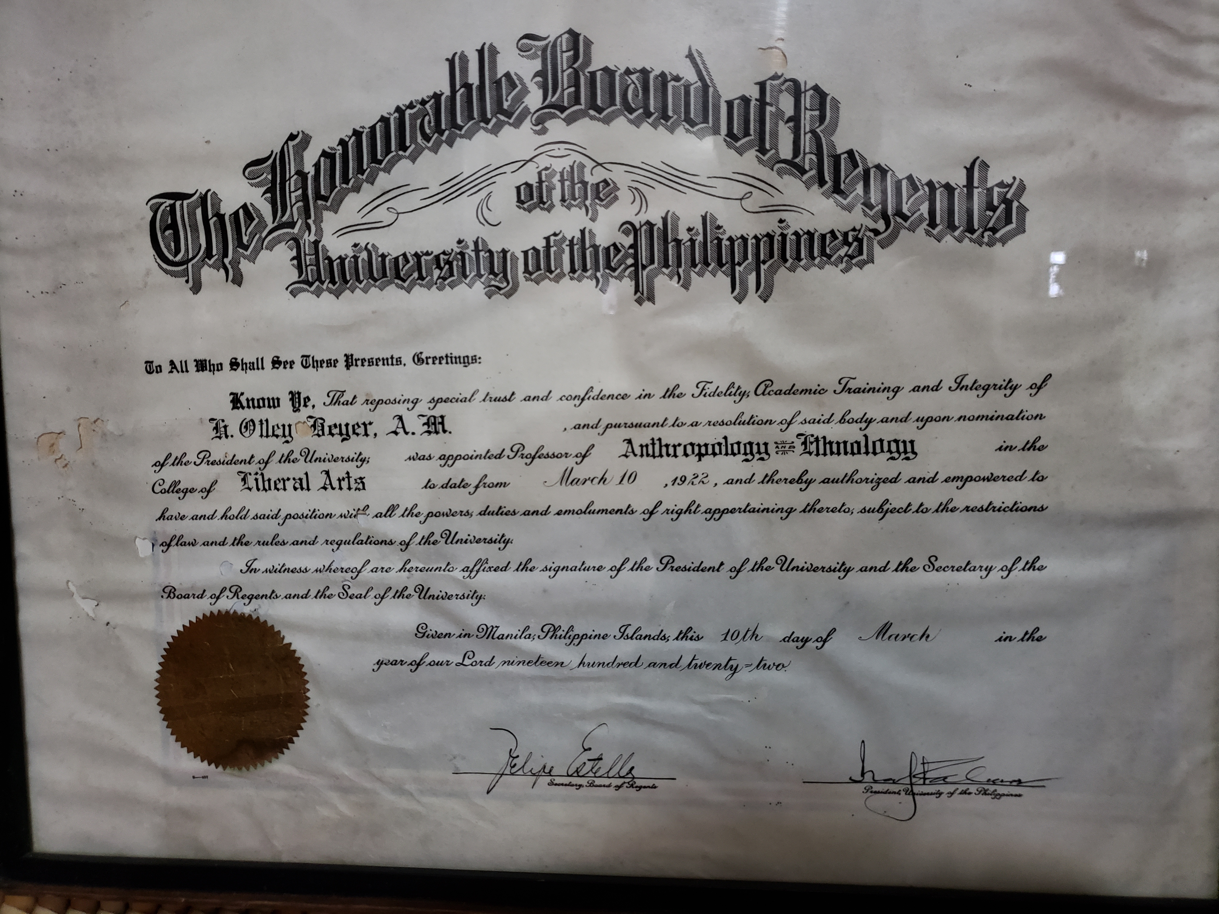 Beyer's appointment as Professor of Anthropology and Ethnology, University of the Philippines. On display in the Banaue Museum.